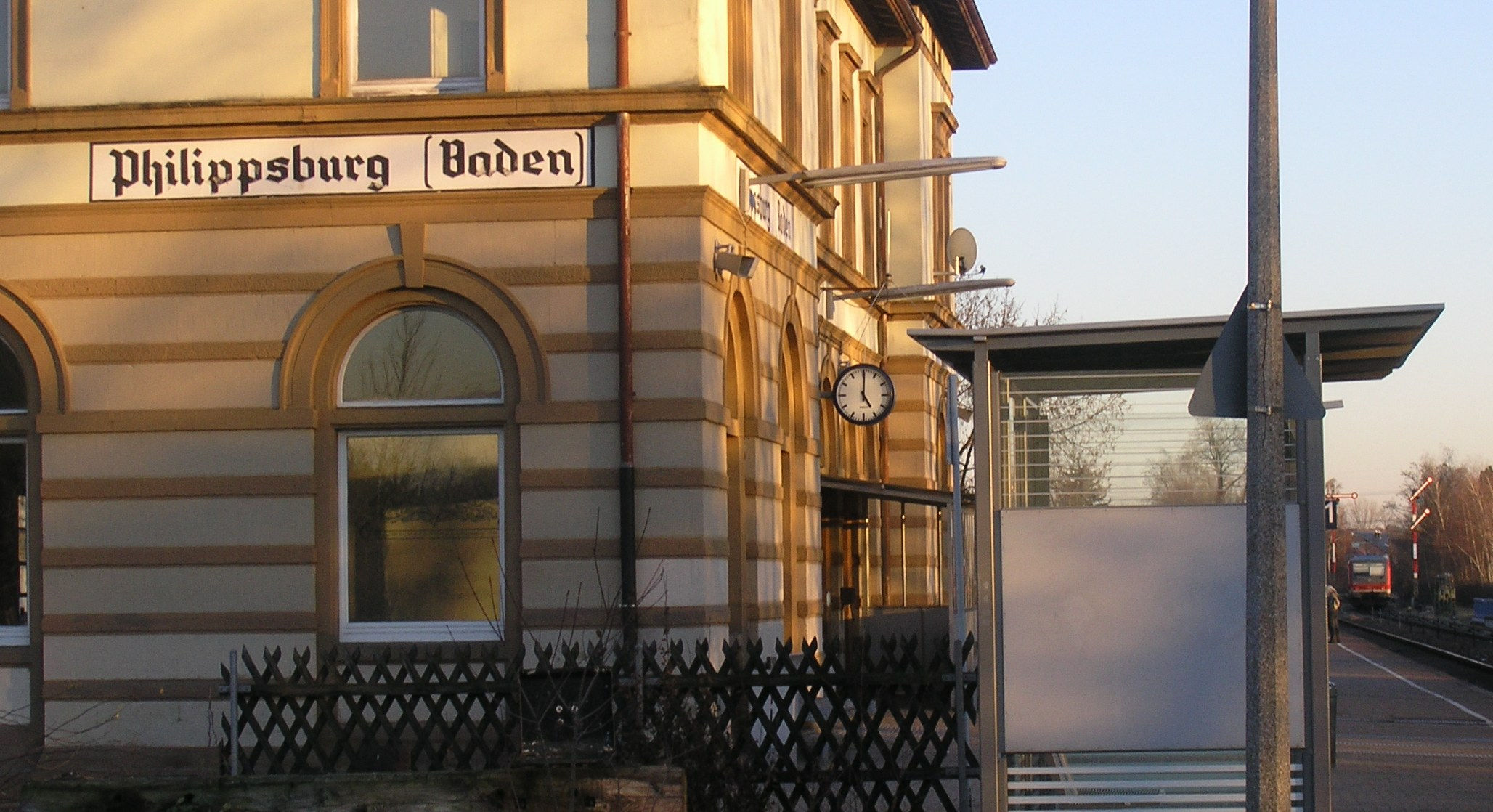 Railway station of Philippsburg, Baden, Germany